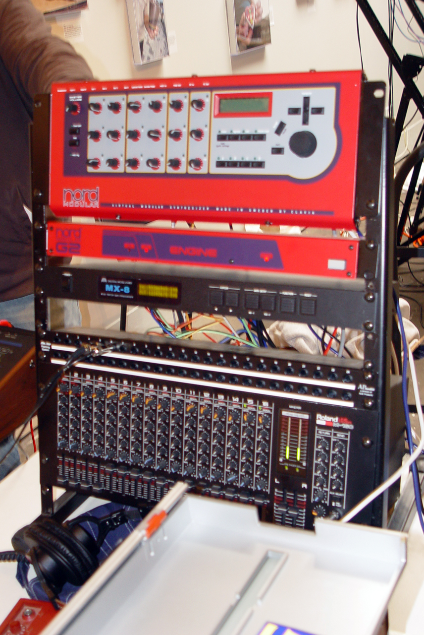 go team. Clavia Nord Modular Rack Clavia Nord Modular G2 Engine Digital Music Corp MX-8 MIDI Patchbay patchbay Roland M-160 16ch line mixer